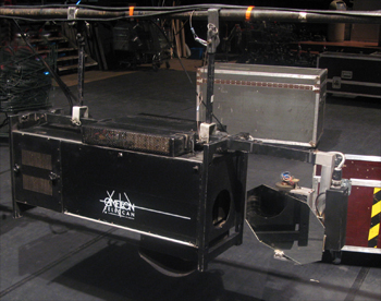 Cameleon Telescan Mark-2 automated luminaire